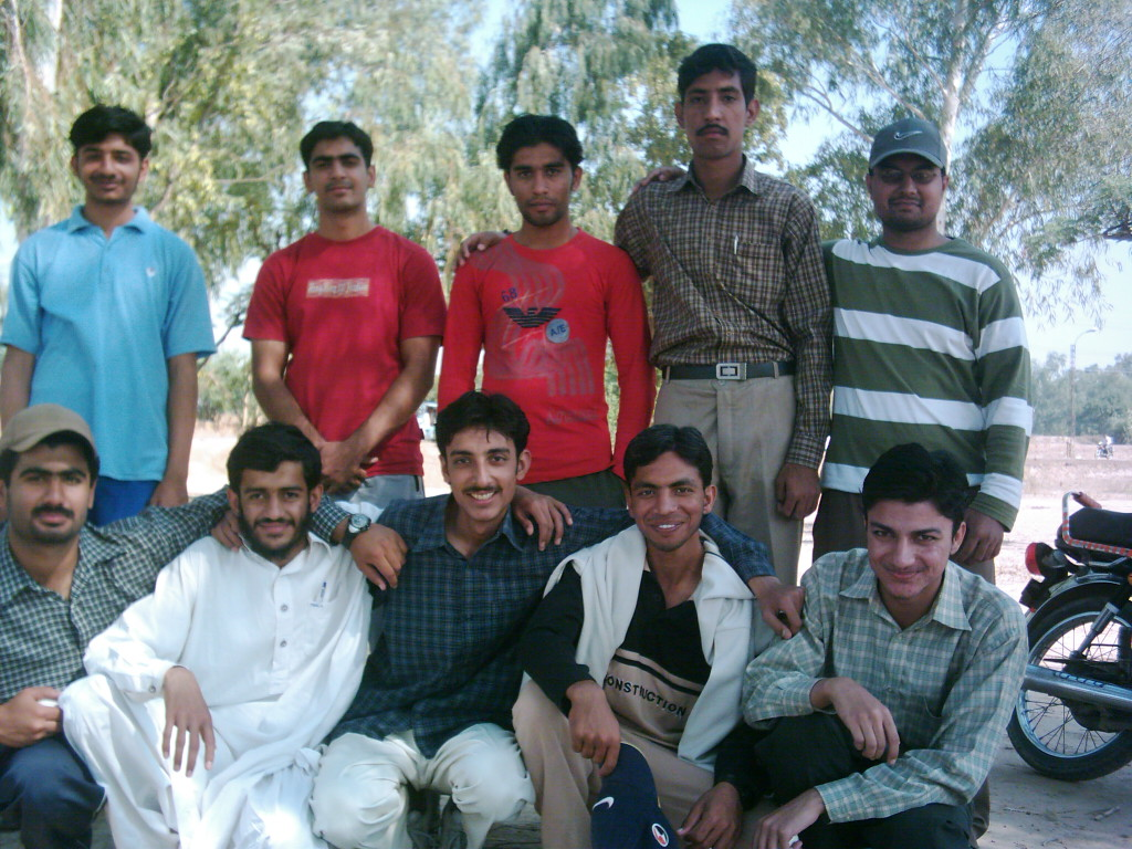 Students in Sialkot, Pakistan gathered after playing cricket even they are fasting.